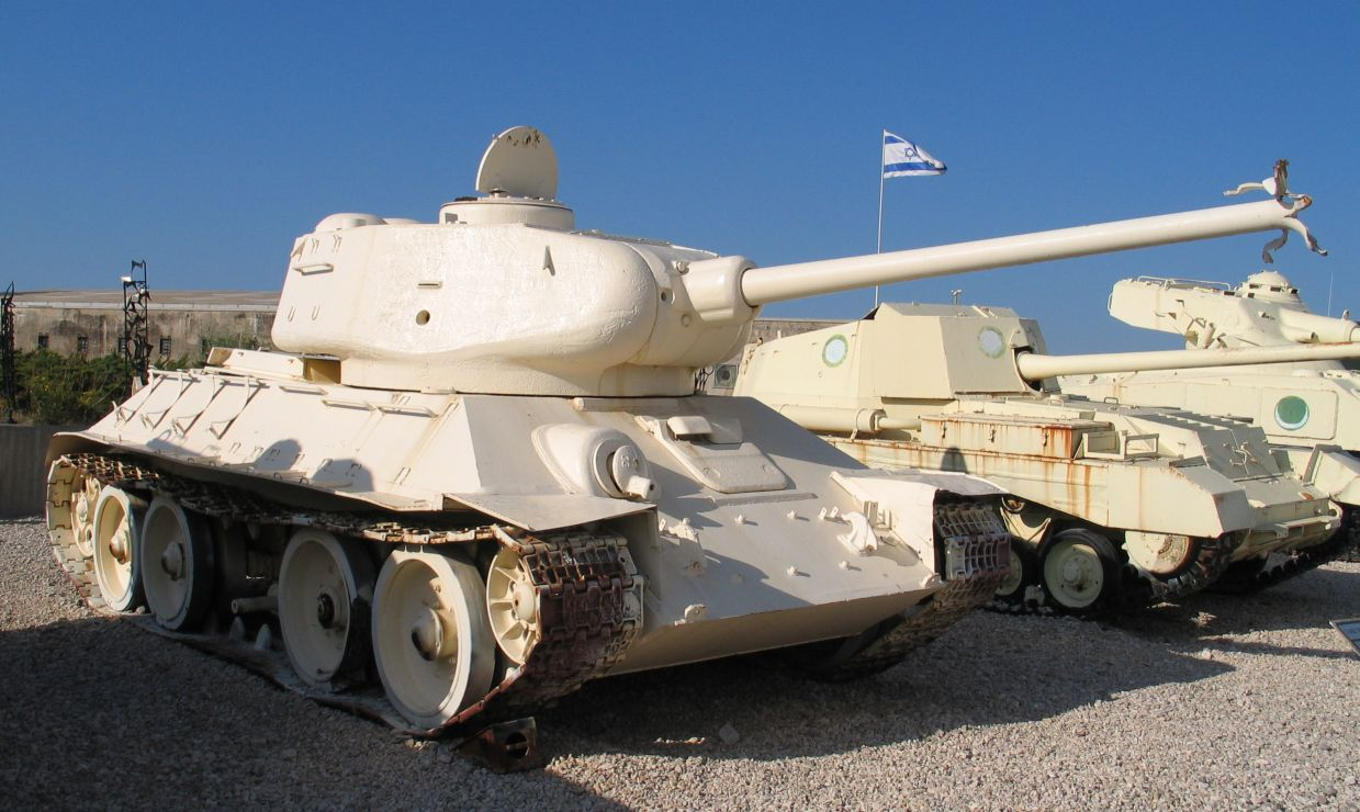 Description: T-34/85 medium tank in Yad la-Shiryon Museum, Israel. Source: Photo by me, User:Bukvoed